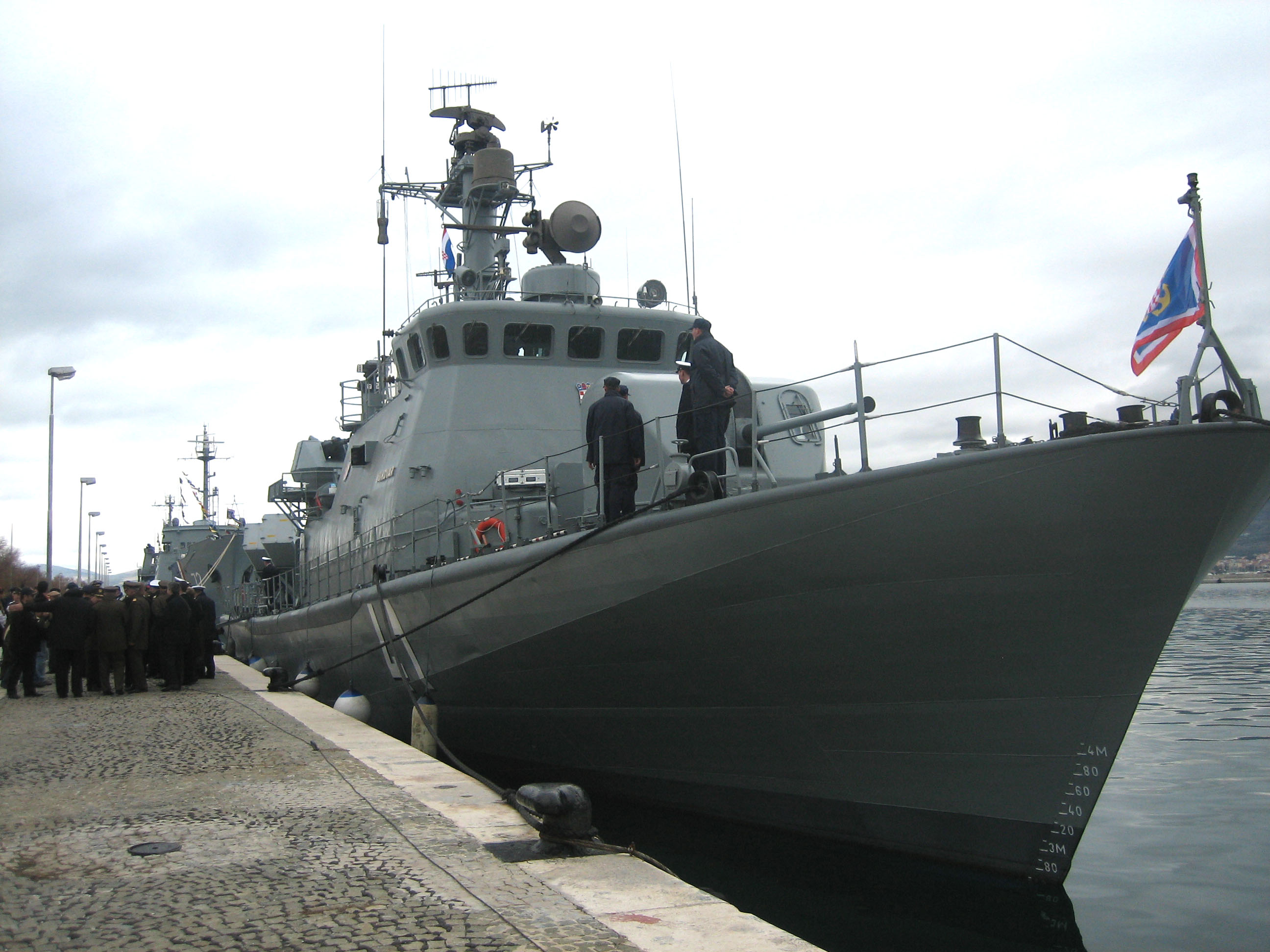 RTOP-41 Vukovar